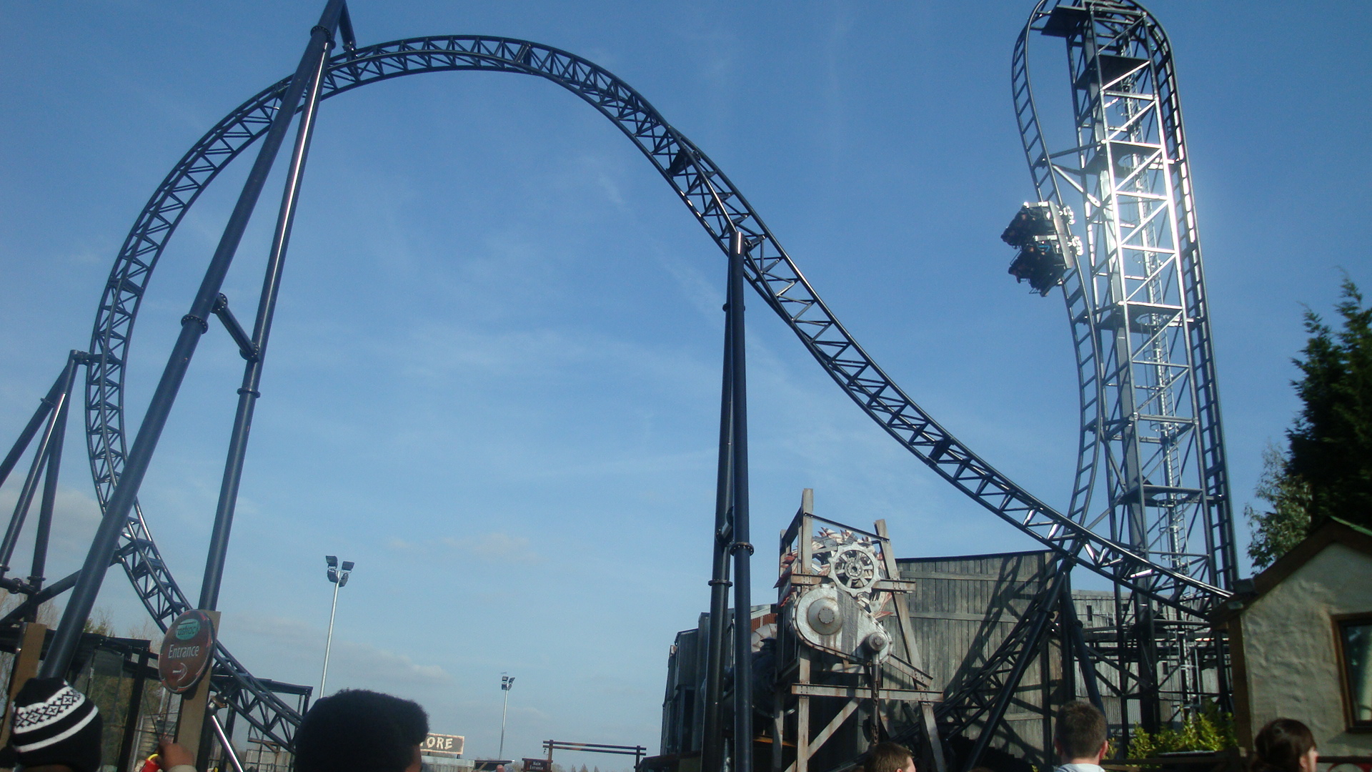 Saw: The Ride fully operational